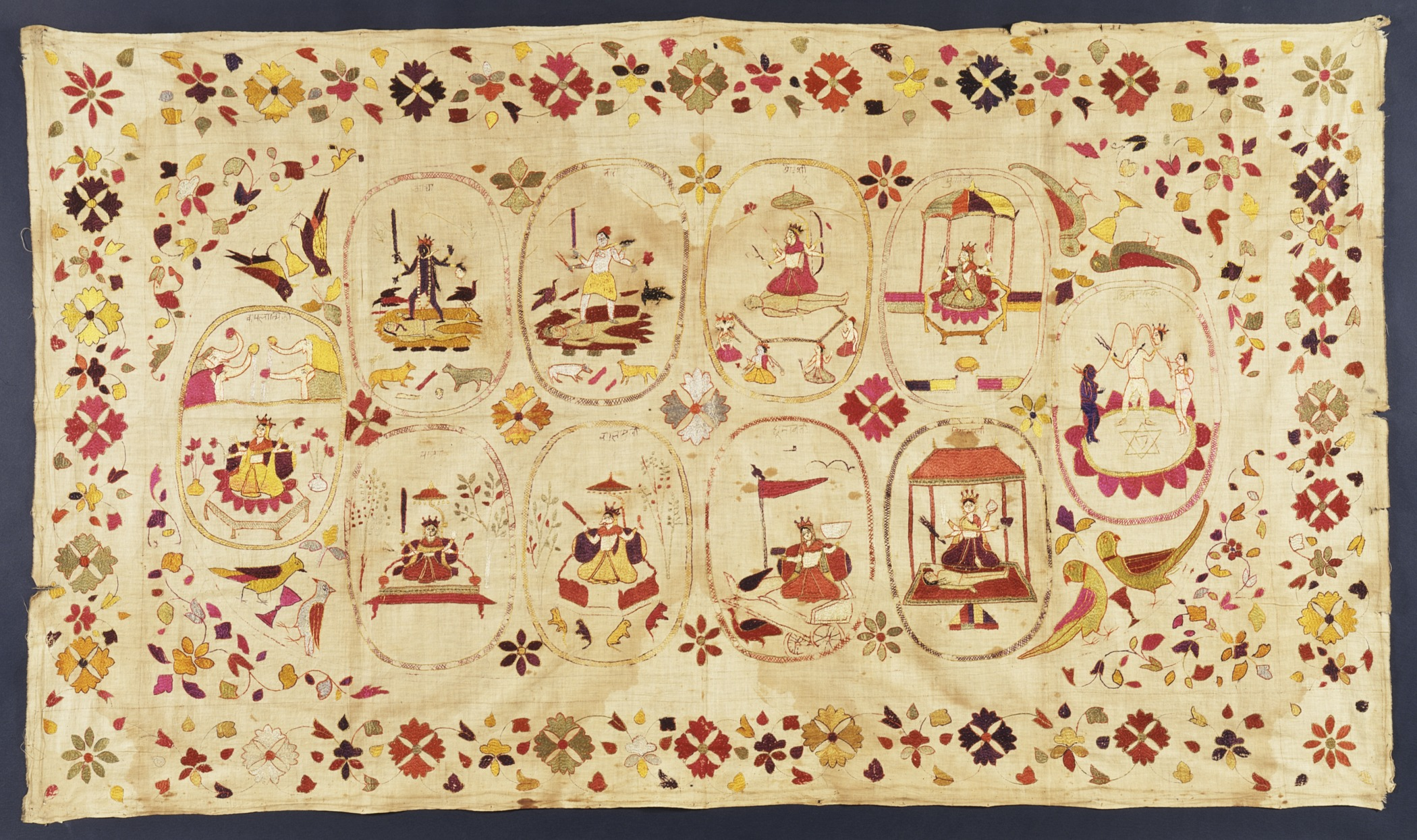 India, Himachal Pradesh, probably Basohli, circa 1800 Textiles Silk embroidery on cotton ground Gift of Anna Bing Arnold (M.80.4) Costume and Textiles